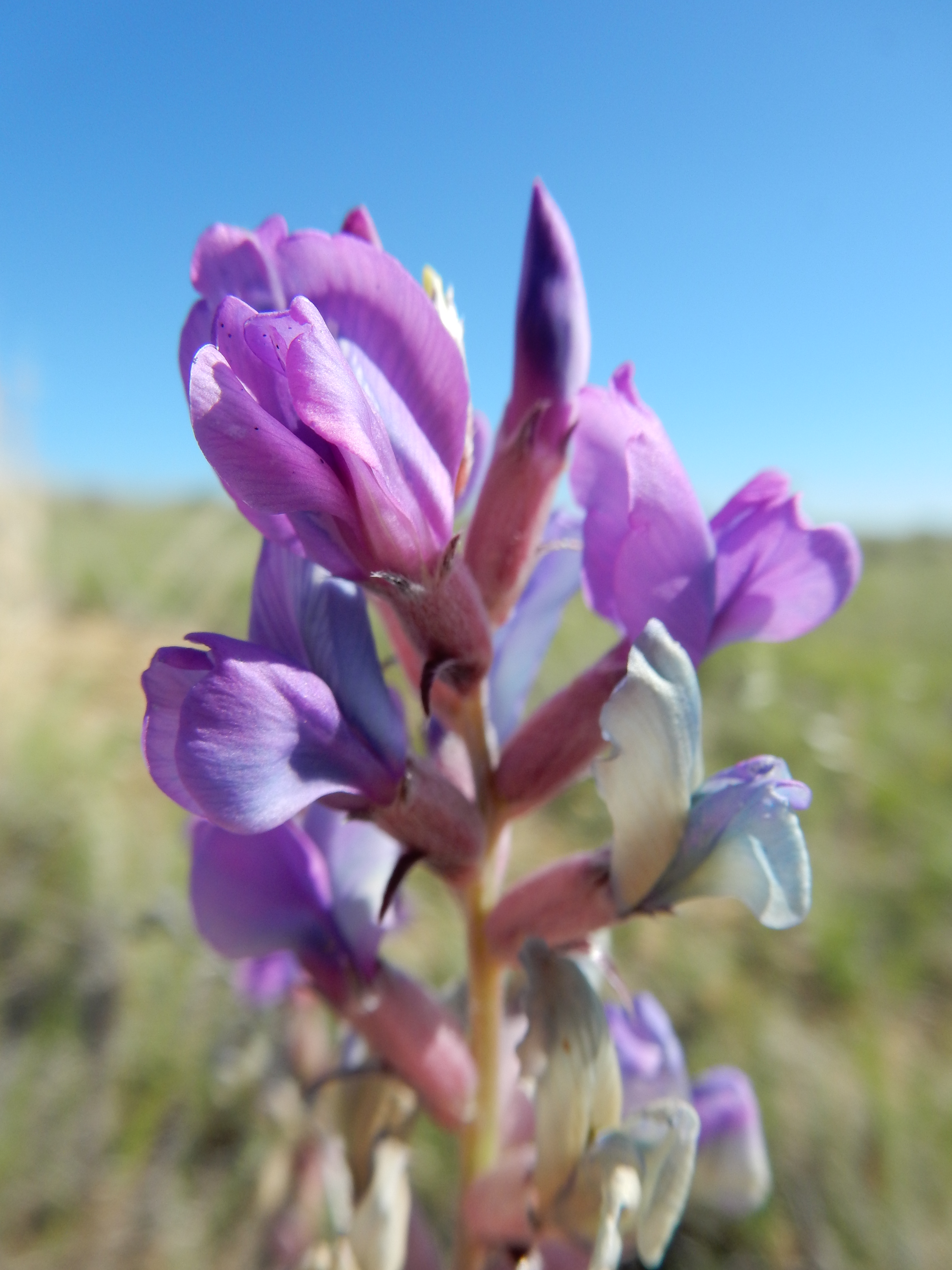 Purple locoweed is most common in the low elevations of eastern Montana sagebrush steppe compared to upper elevation sagebrush steppe. The narrow leaflets covered with medifixed (dolabriform) hairs are diagnostic of this species.